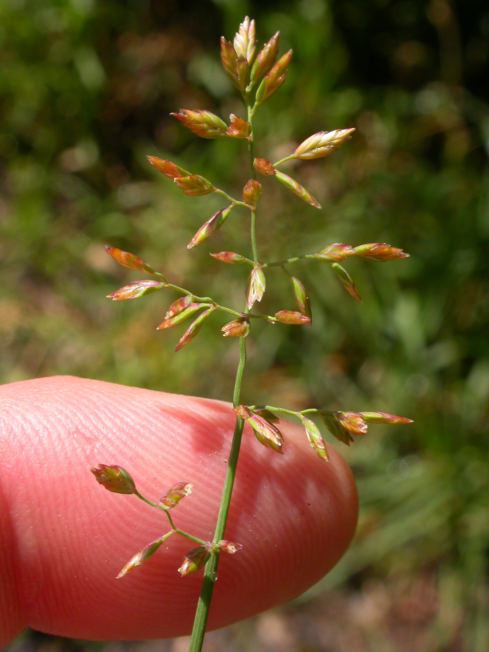 The panicles are typically narrow and bear relatively few small spikelets.